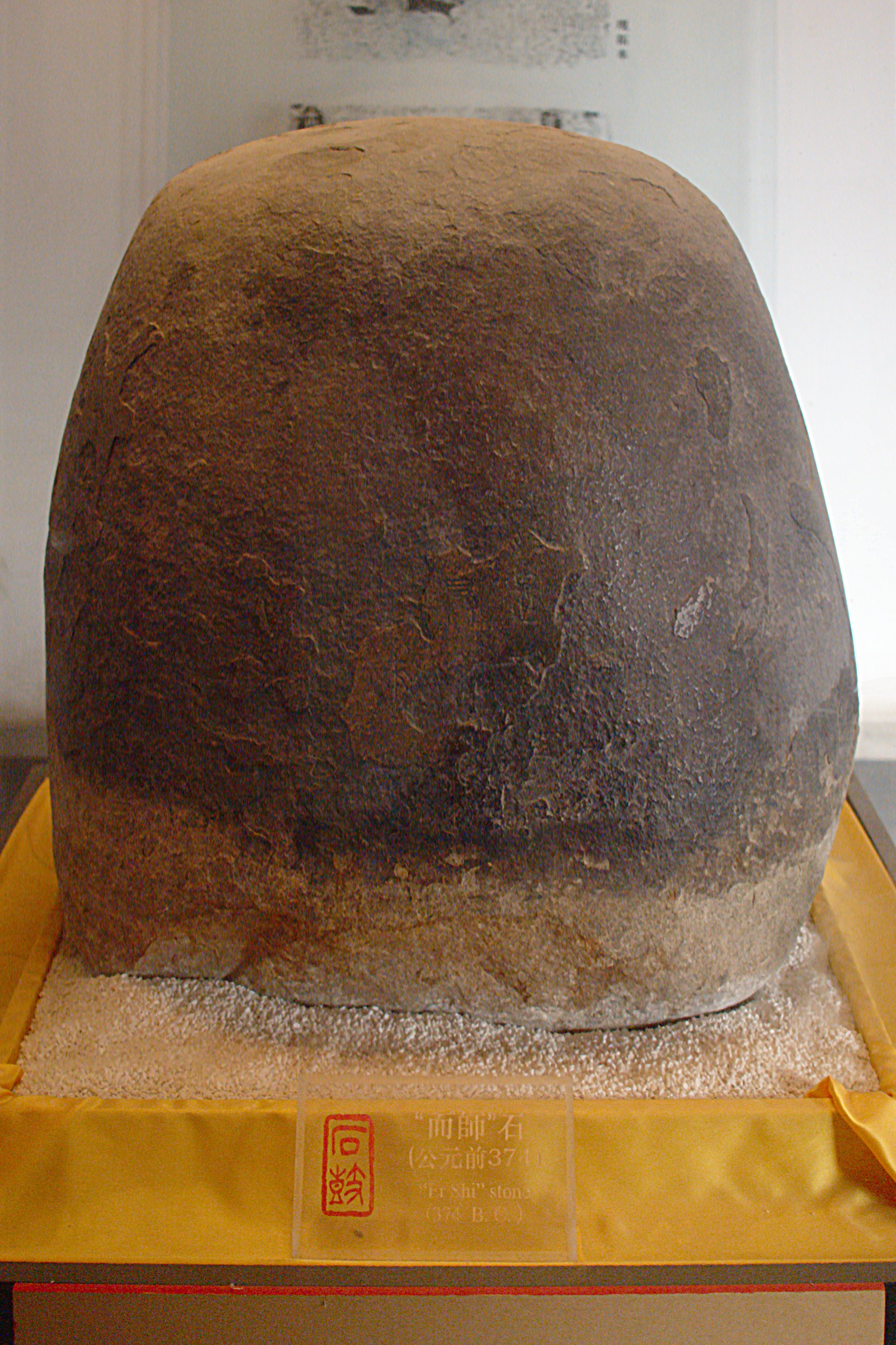 The Stone Drum "Er Shi" as seen in Forbidden City, Beijing